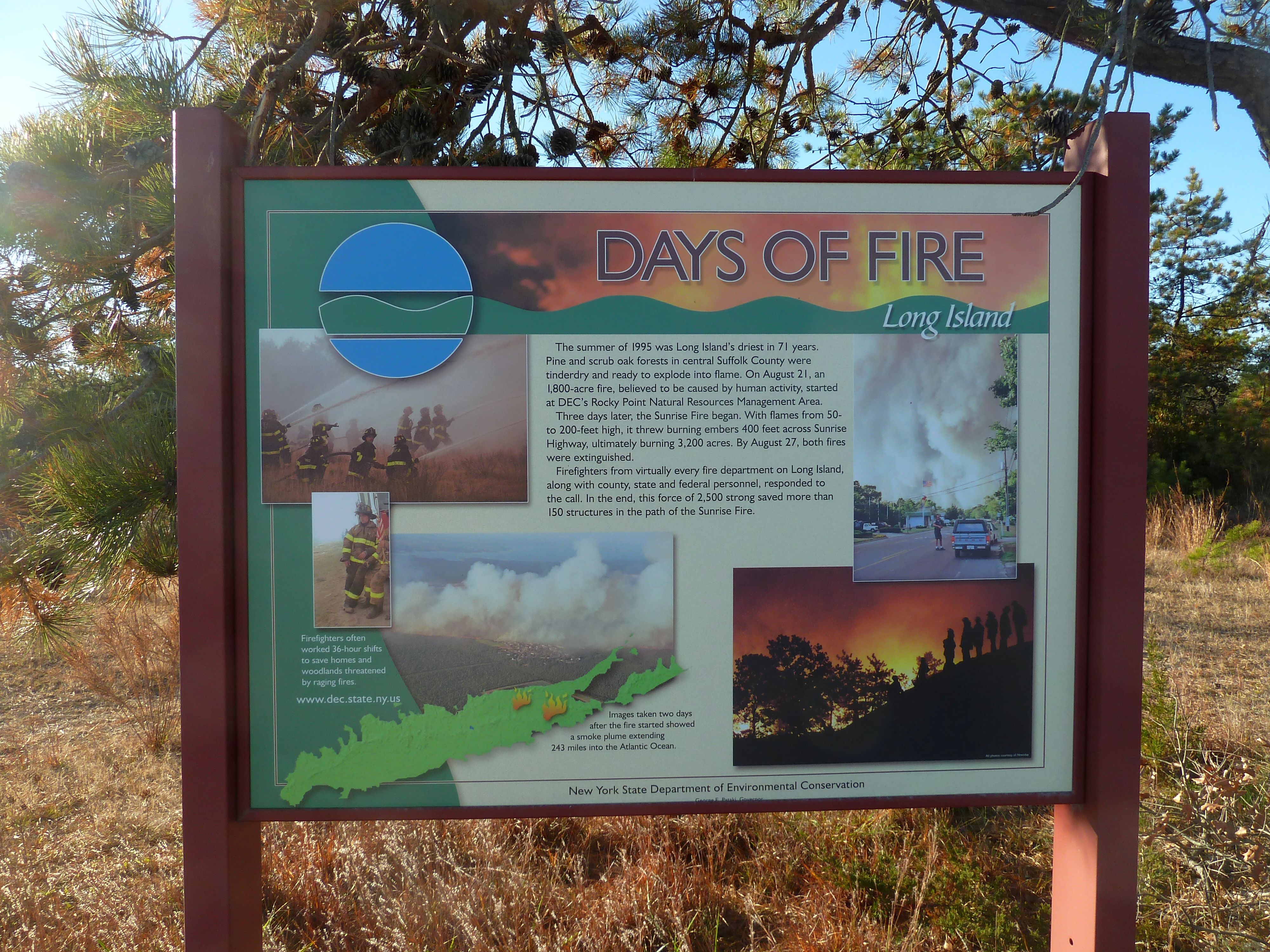 Sign commemorating Long Island Pine Barren fire.